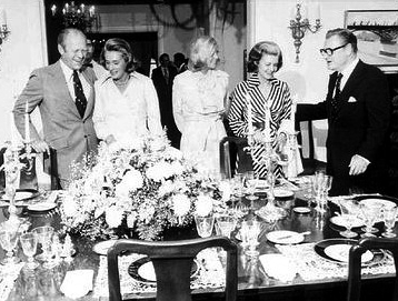 President Ford and Vice President Rockefeller in the Dining Room at One Observatory Circle, official home of the Vice President of the United States. Original description: Then-Vice President Nelson Rockefeller (right) and his wife Margaretta Murphy (second on left) entertain then-President Gerald R. Ford (left) his wife Betty (second on right) and their daughter Susan (center) at the Naval Observatory on September 7, 1975.